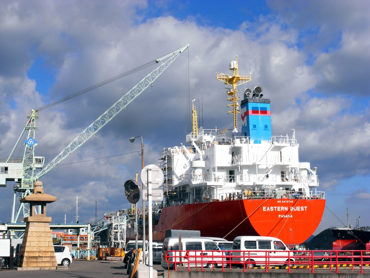 Port of Hashihama in Imabari, Ehime pref., Japan.